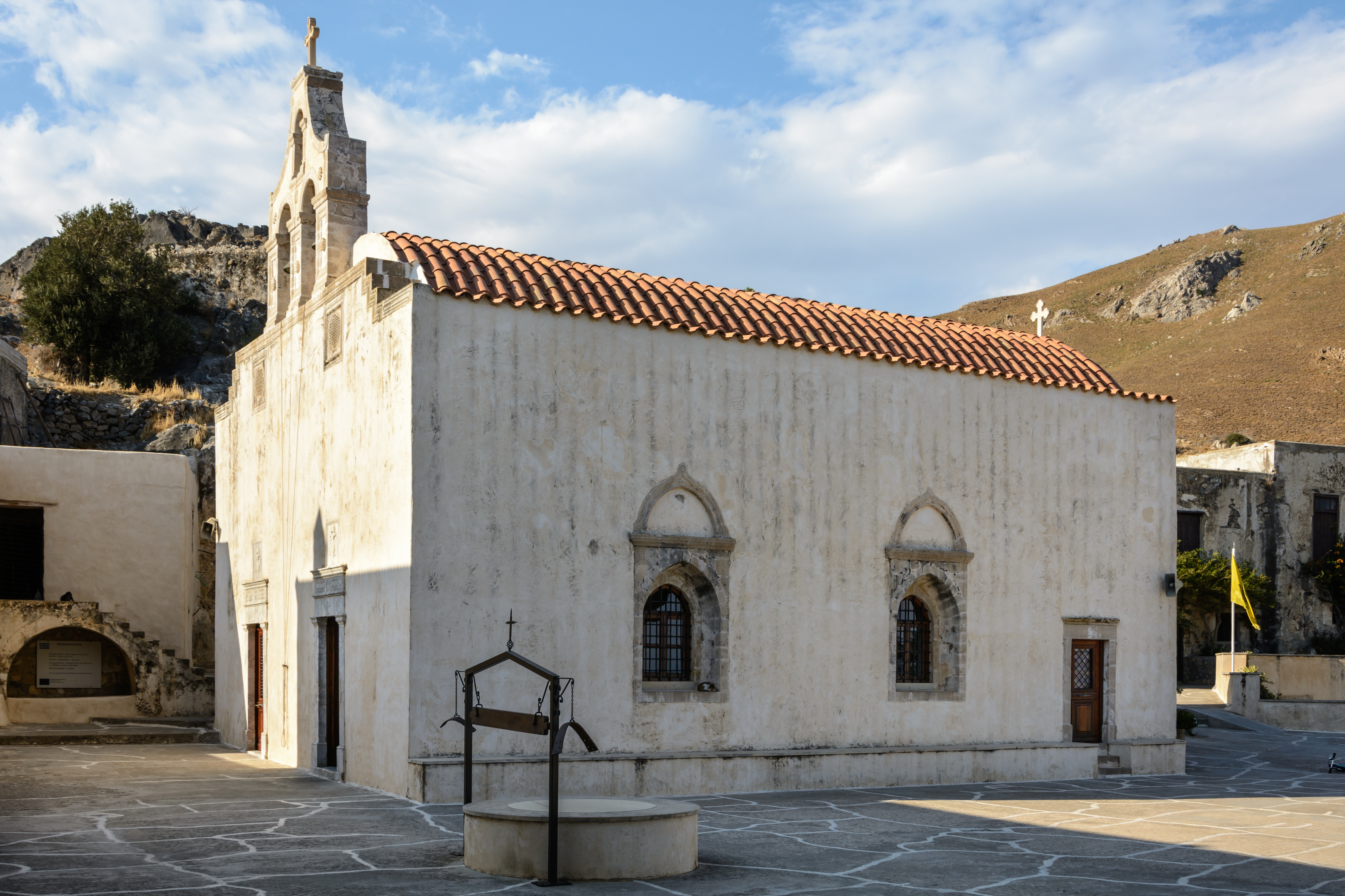 Church of Preveli Monastery (Moni Preveli), Crete